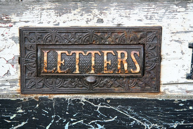 Wormgate letterbox 19th century letterbox in Wormgate 977399